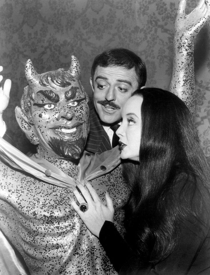 Photo from the television program The Addams Family. In this episode, Uncle Fester's romance sours; Gomez (John Astin) and Morticia (Carolyn Jones) consult the family's devil statue for advice about what to do.